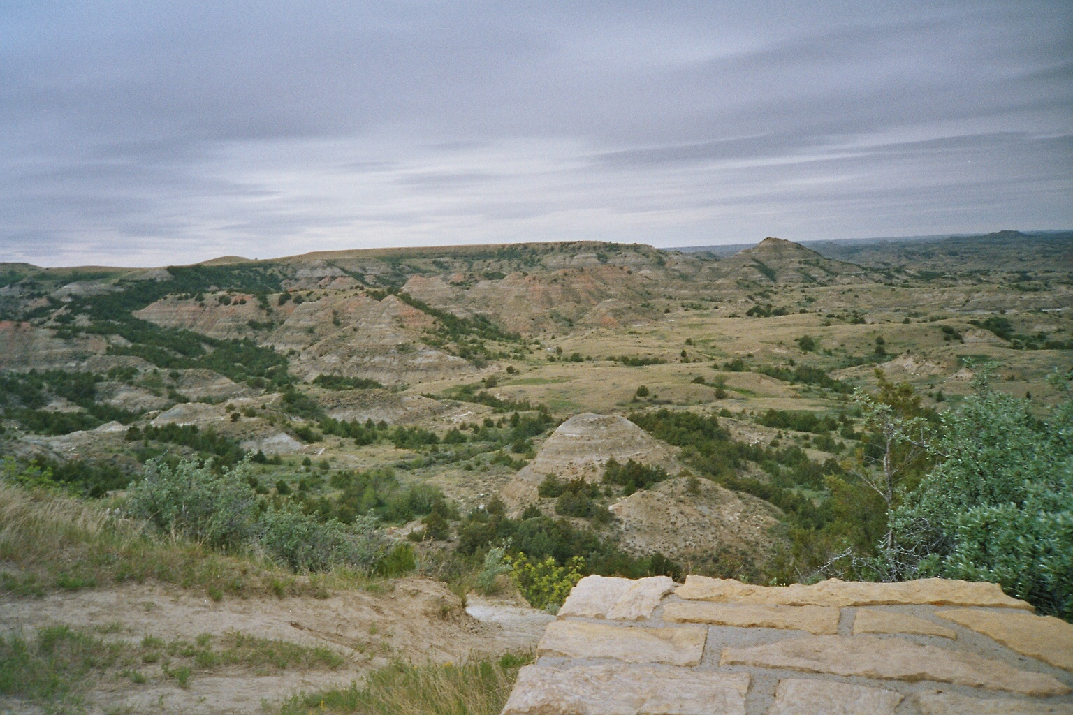 Theodor Roosevelt National Park South Unit